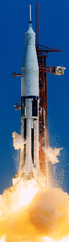 Launch of AS-201